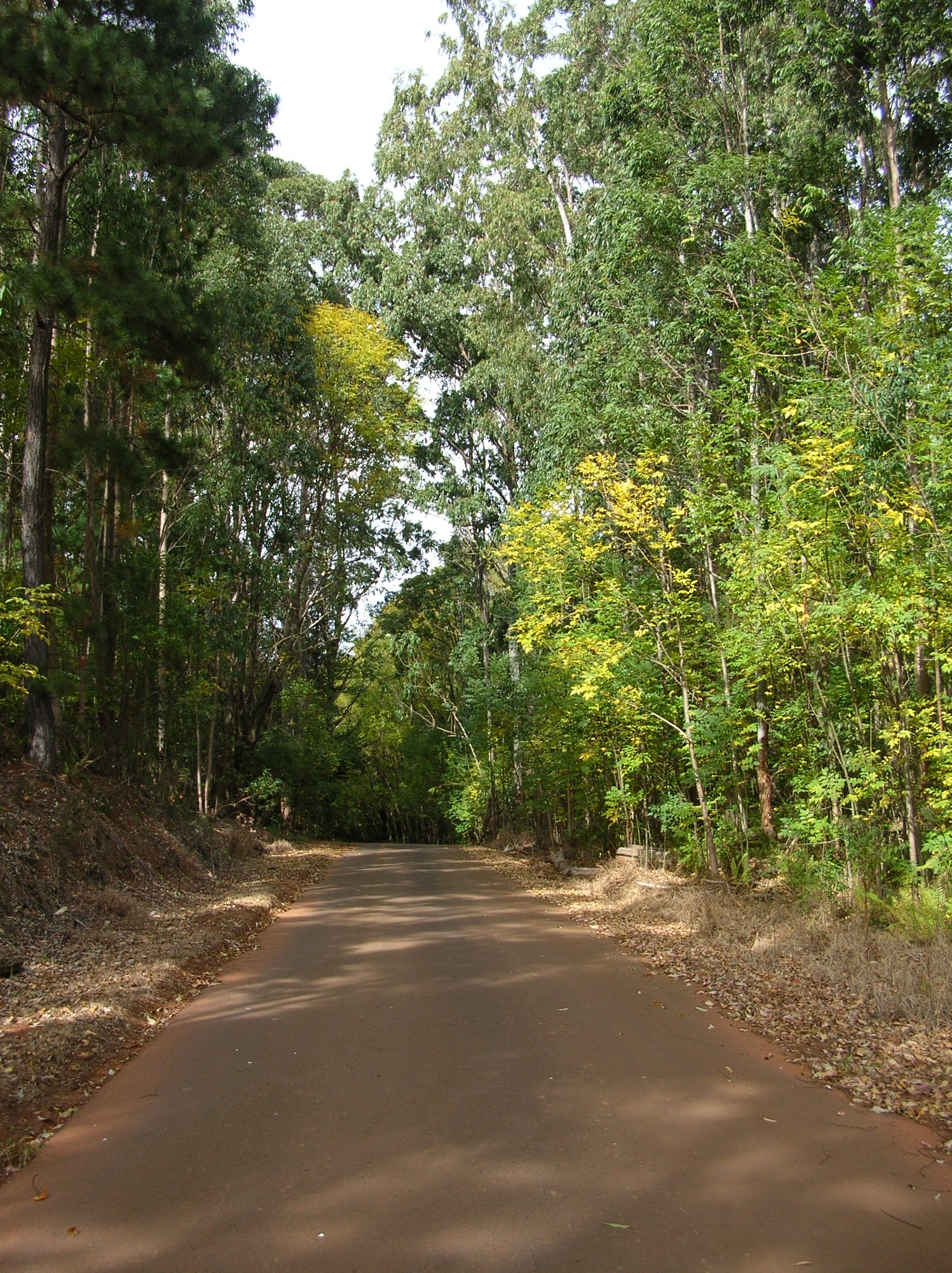 Fraxinus uhdei (fall foliage). Location: Maui, Makawao Forest Reserve